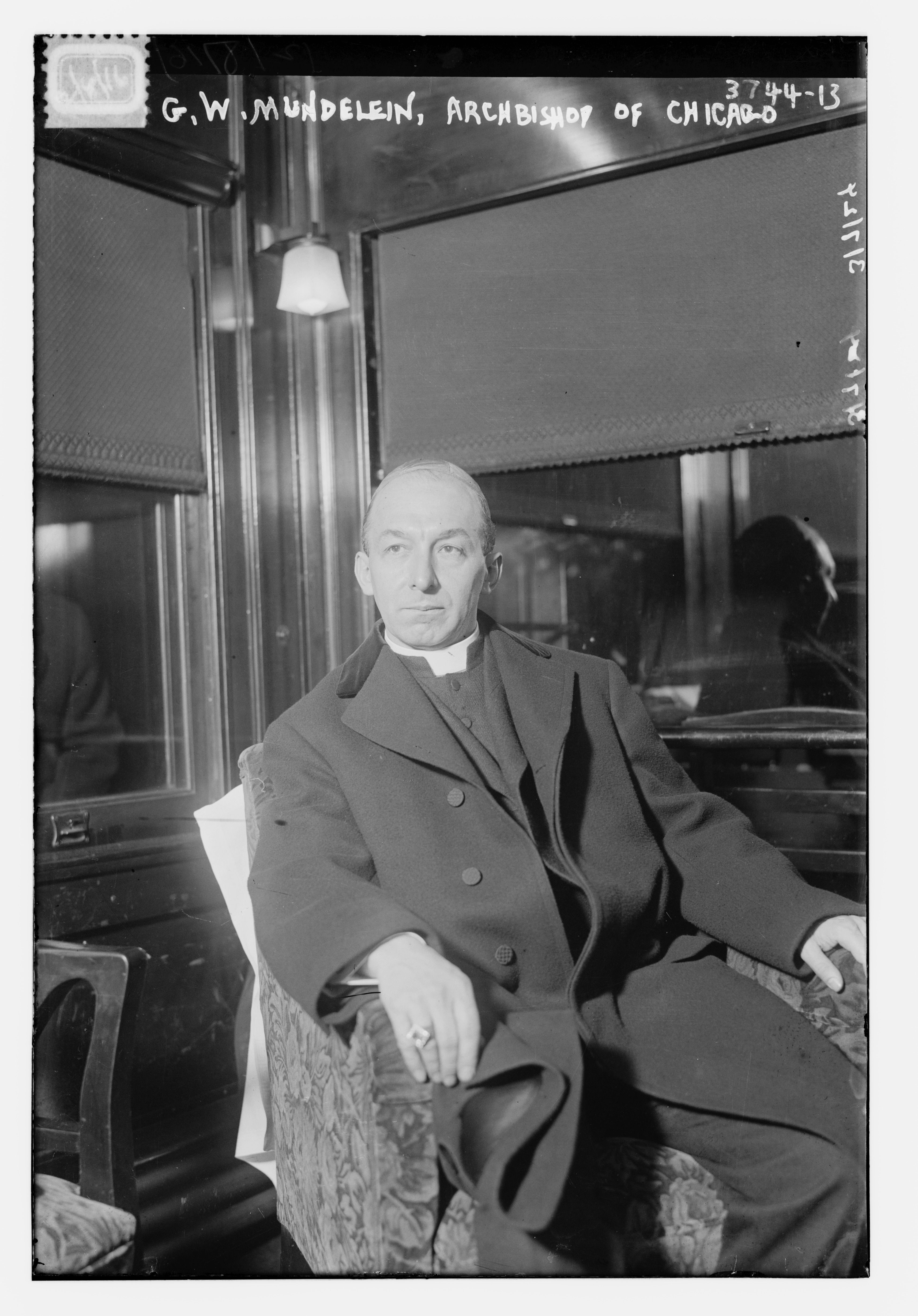 George William Mundelein (July 2, 1872 – October 2, 1939)